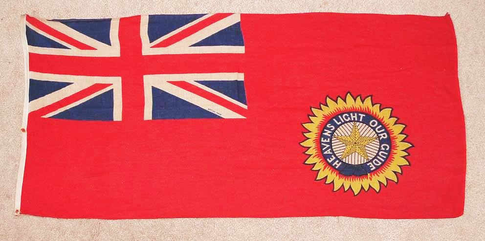 Flag of British India "Star of India" Red Ensign version.